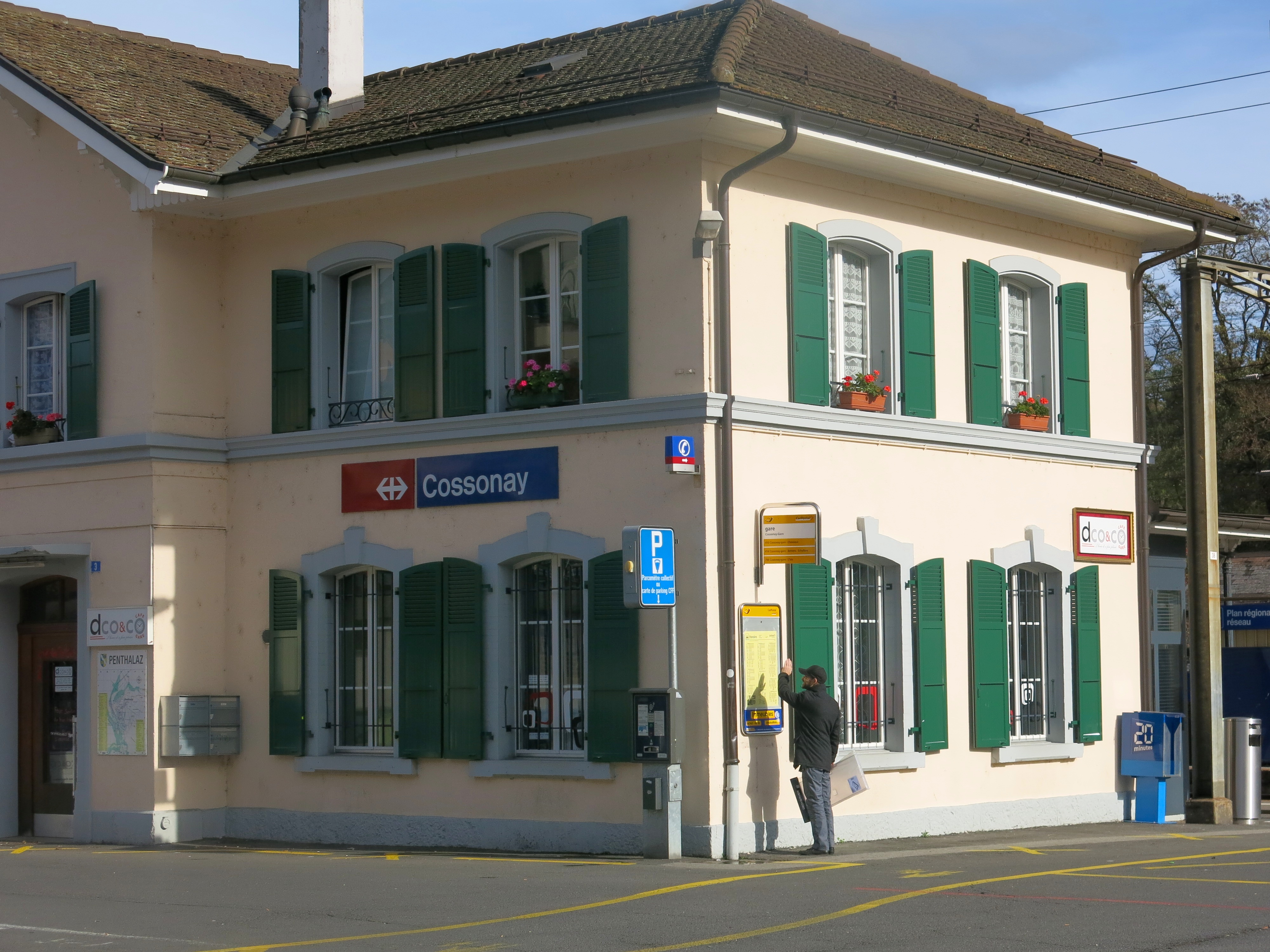 Main building of Cossonay-Penthalaz train station.